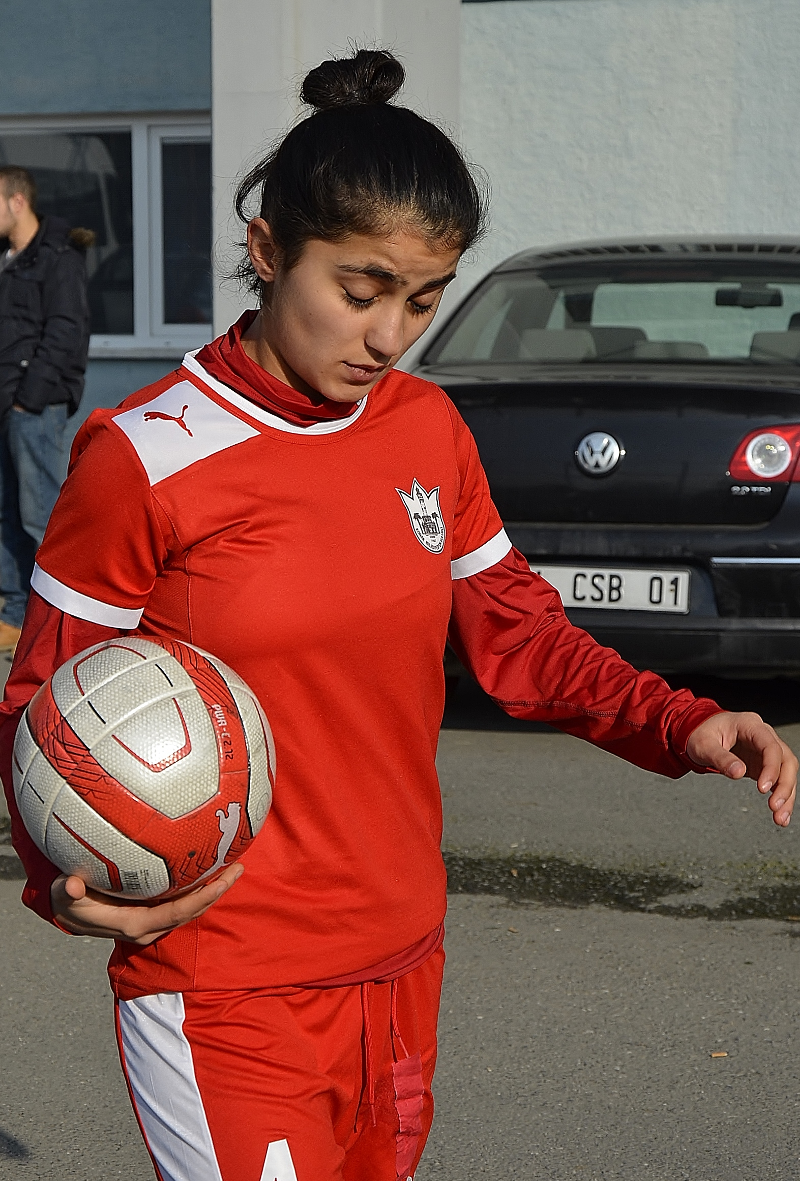 Didem Taş before away match against Marmara Üniversitesi Spor on Jan 12, 2014